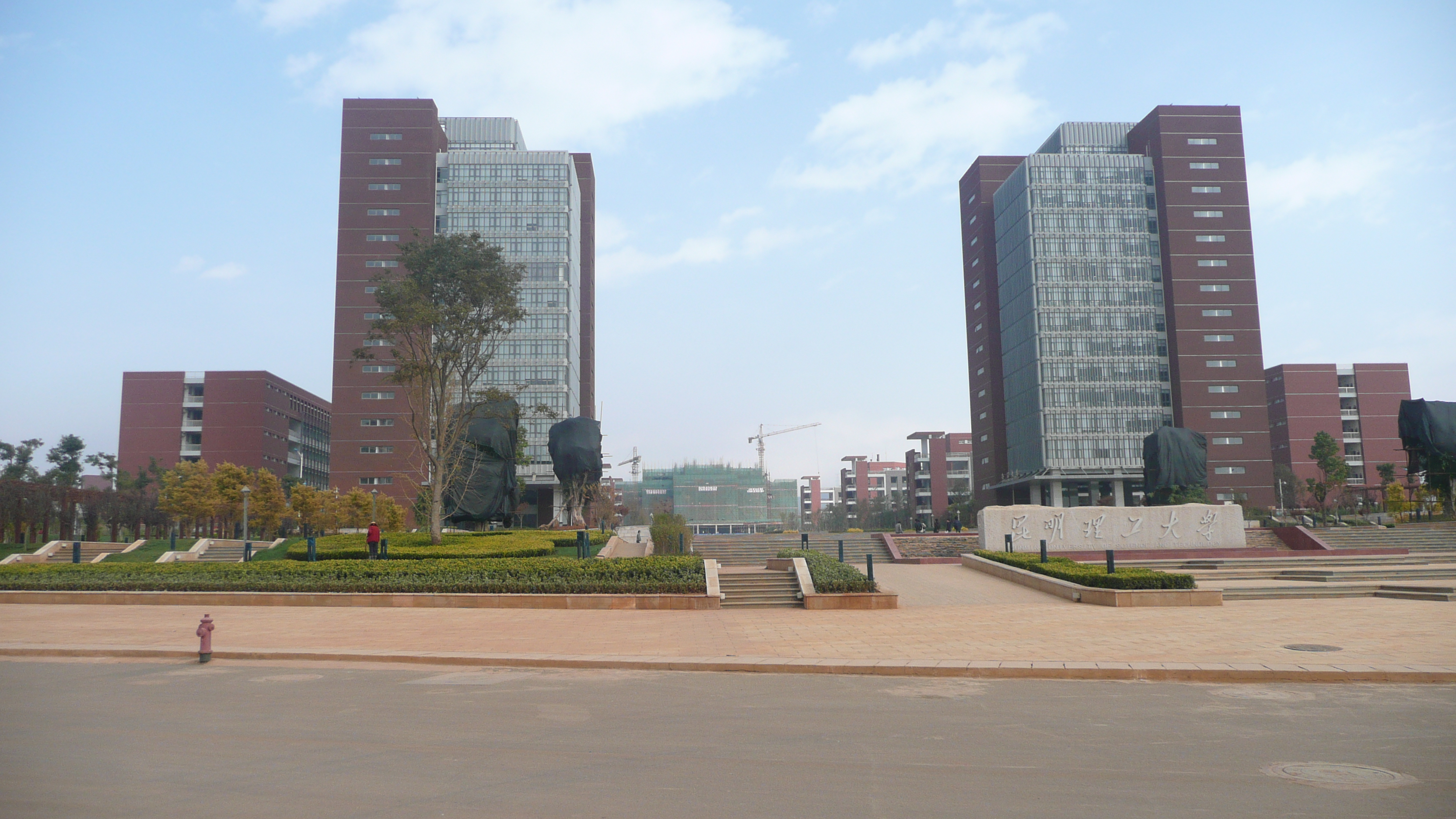 Kunming - Capital of the Chinese province Yunnan - New buildings of the Kunming University of Science and Technology in der new East-city